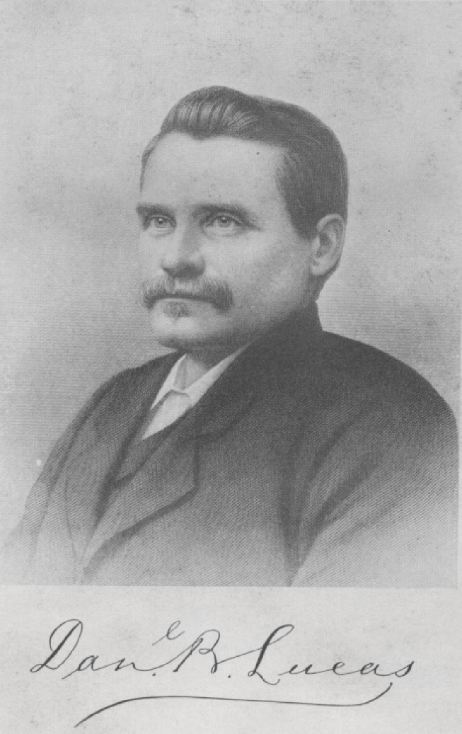 frontispiece from the 1913 published volume of poetry "The Land Where We Were Dreaming".